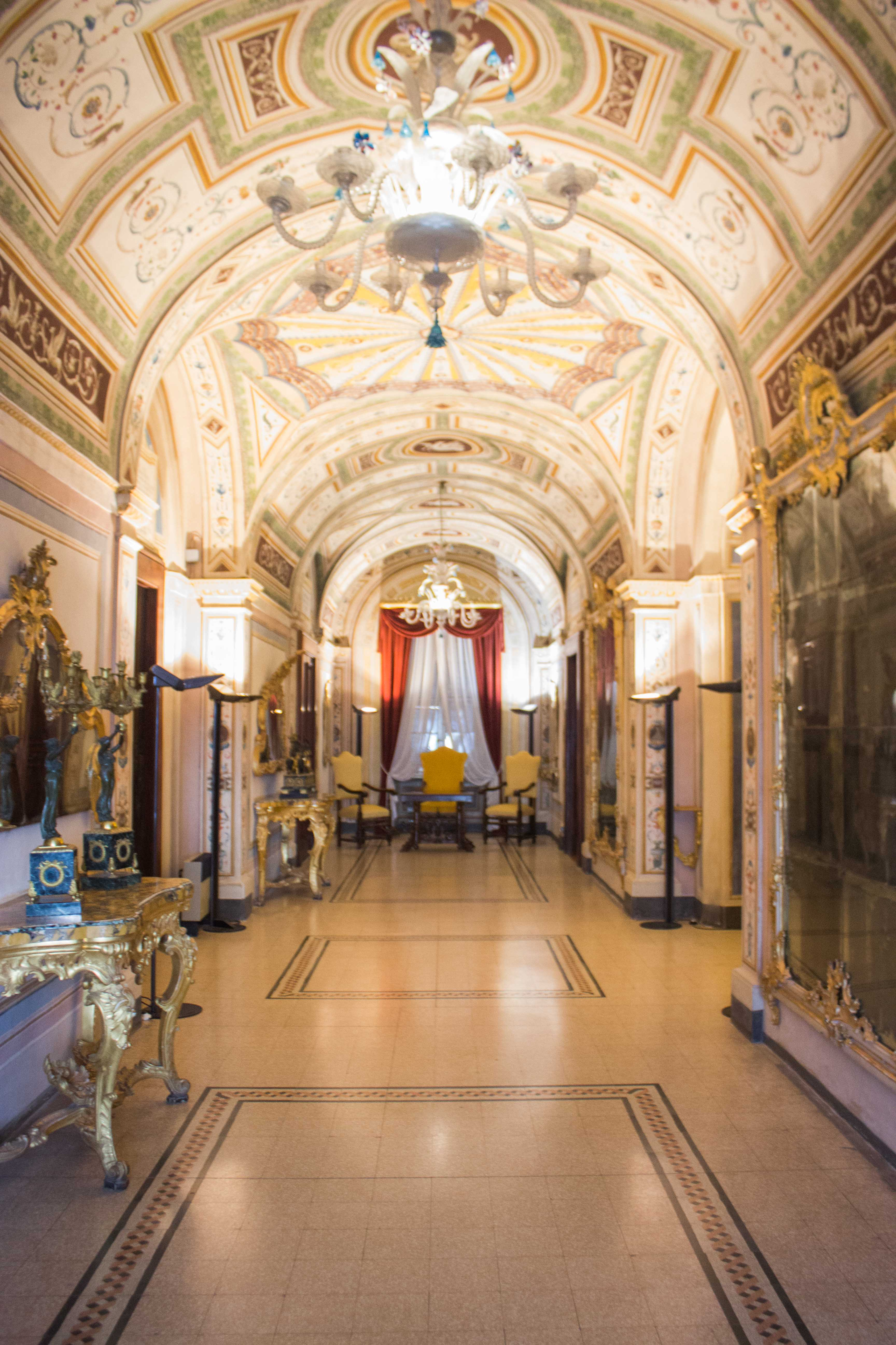 mozzi borgetti